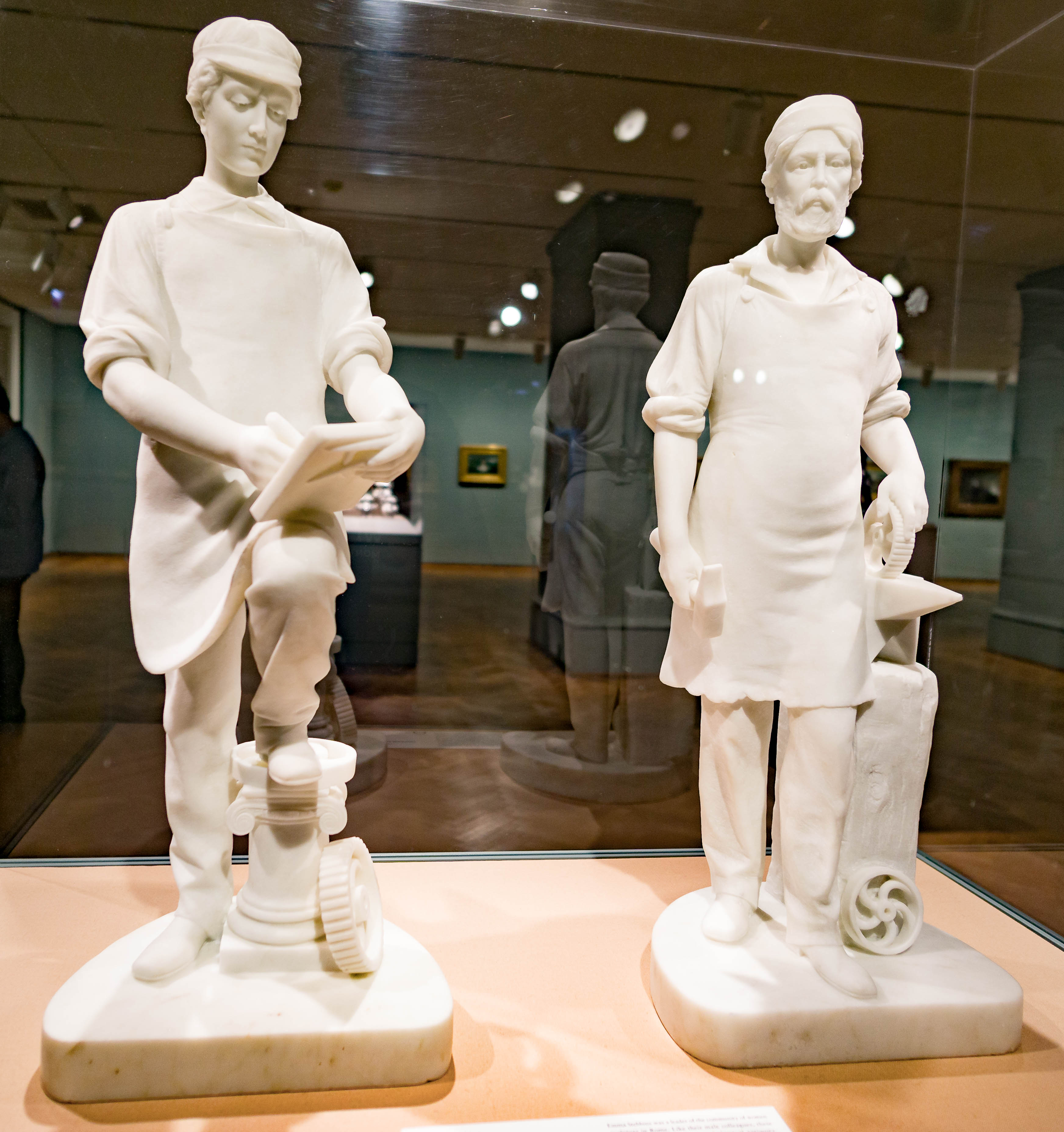 Machinist and Machinist's Apprentice